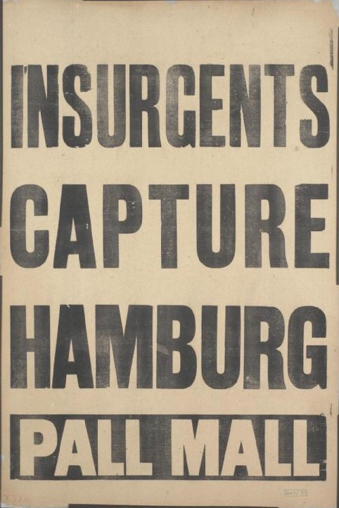 Placard for the Pall Mall Gazette : "Insurgents Capture Hamburg". NOTE : see German Revolution of 1918–1919